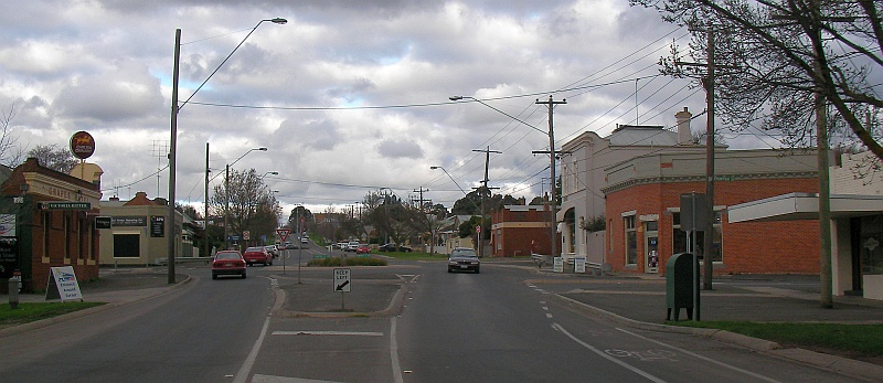 Grant Street shops looking north. Golden Point, Victoria